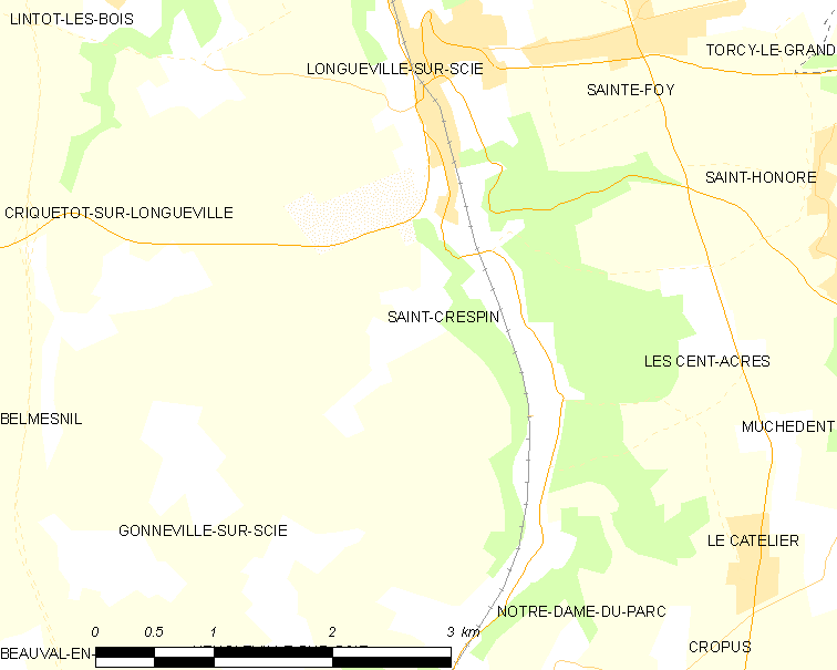 Map of French municipality Saint-Crespin